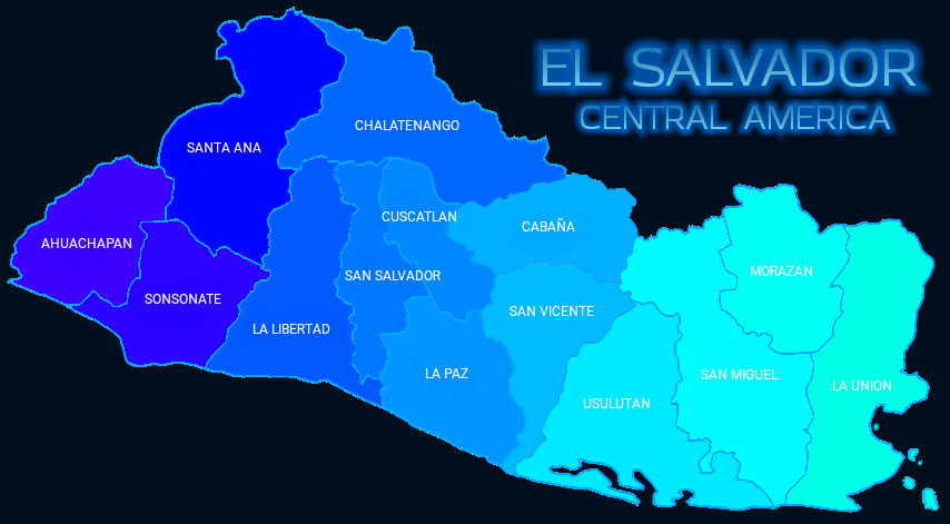 Map of El Salvador departments, Mapa de Departamentos de El Salvador